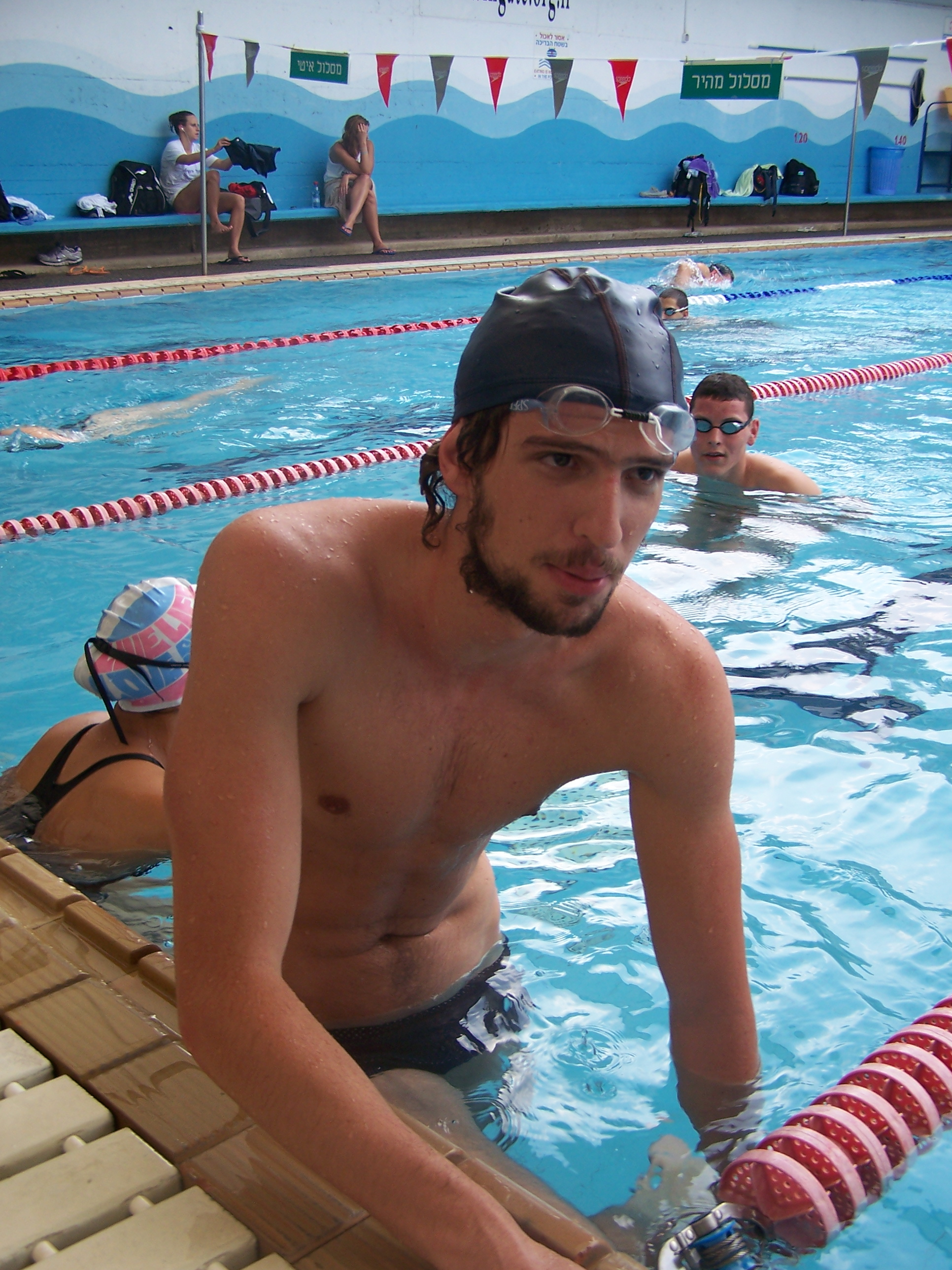 Shai Livnat in the Israeli Championships in swimming 2010